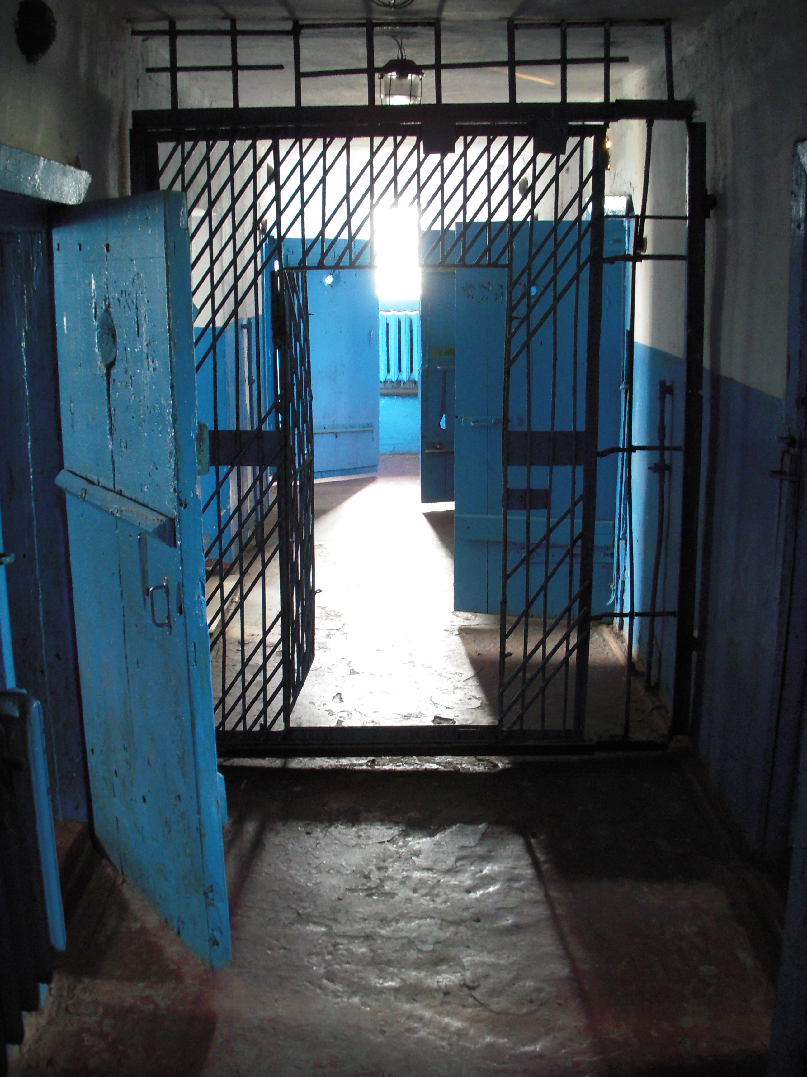 Gulag Perm-36 (Russia, Kuchino near Chusovoi). Corridor inside the camp internal prison.